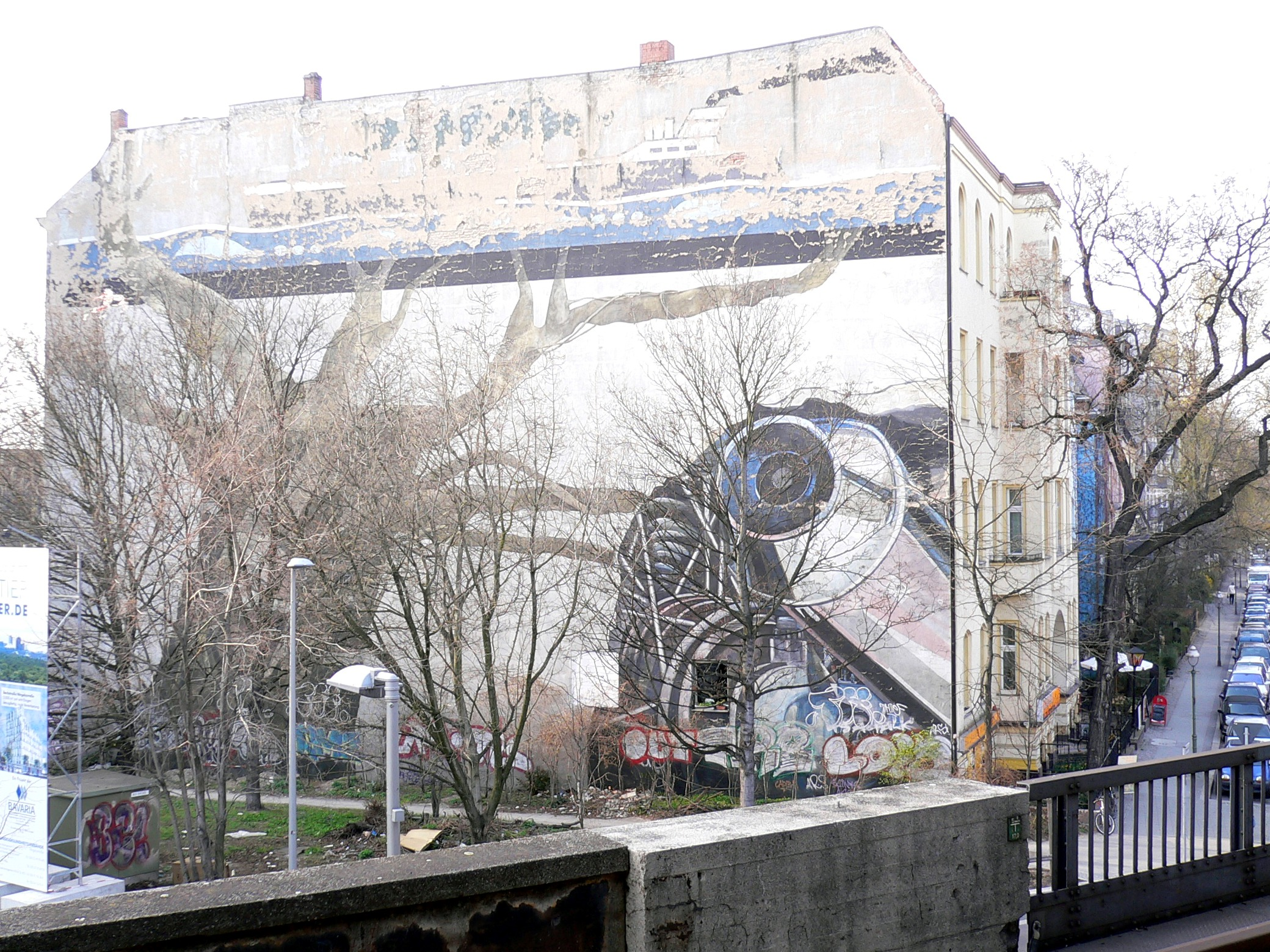 Mural in Berlin, from Ben Wagin (Ben Wargin), edits: cropped